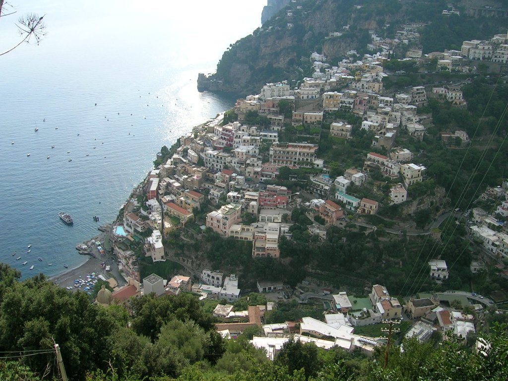 Positano, Italy, view from above, September 2005